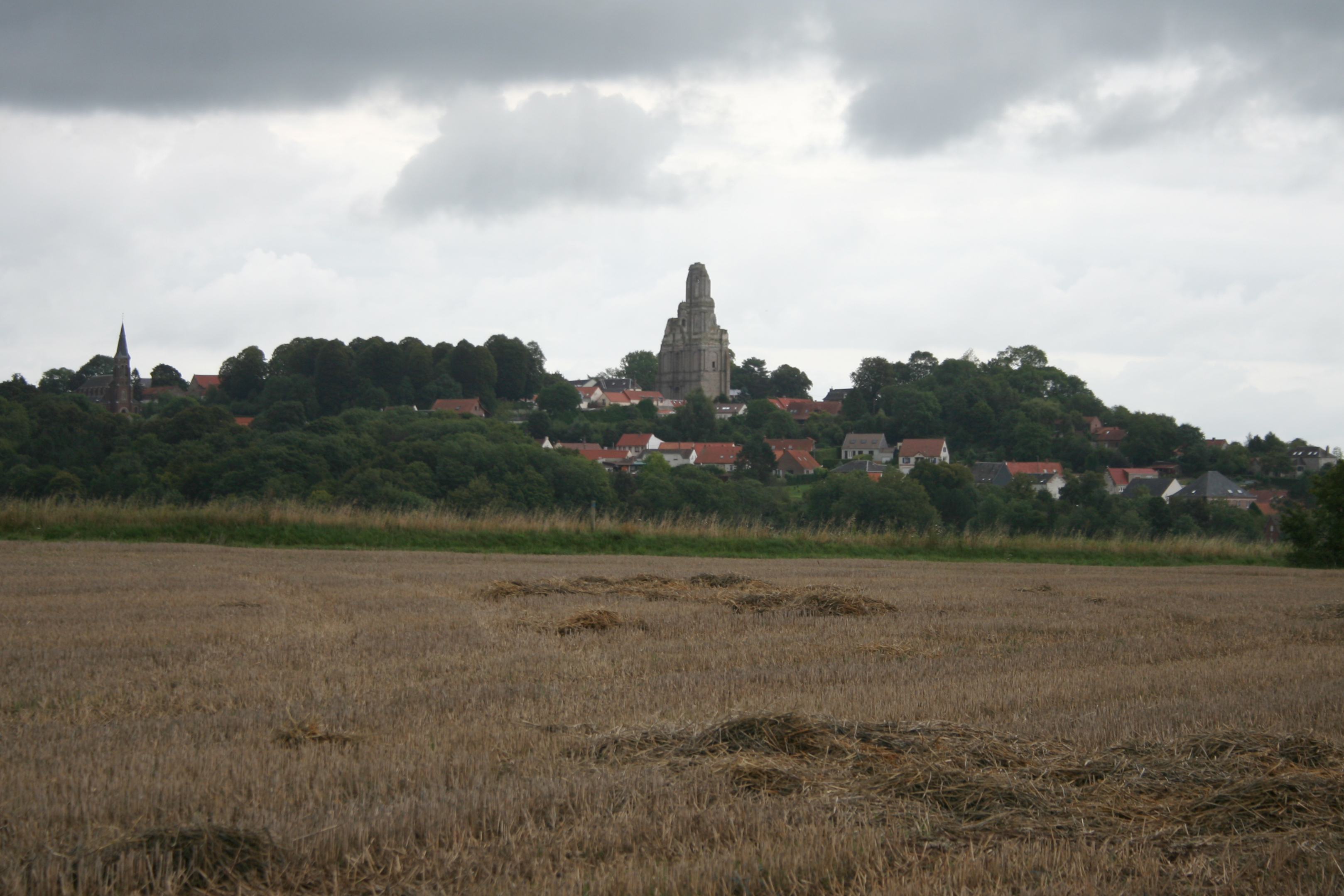 view of Mont saint eloi